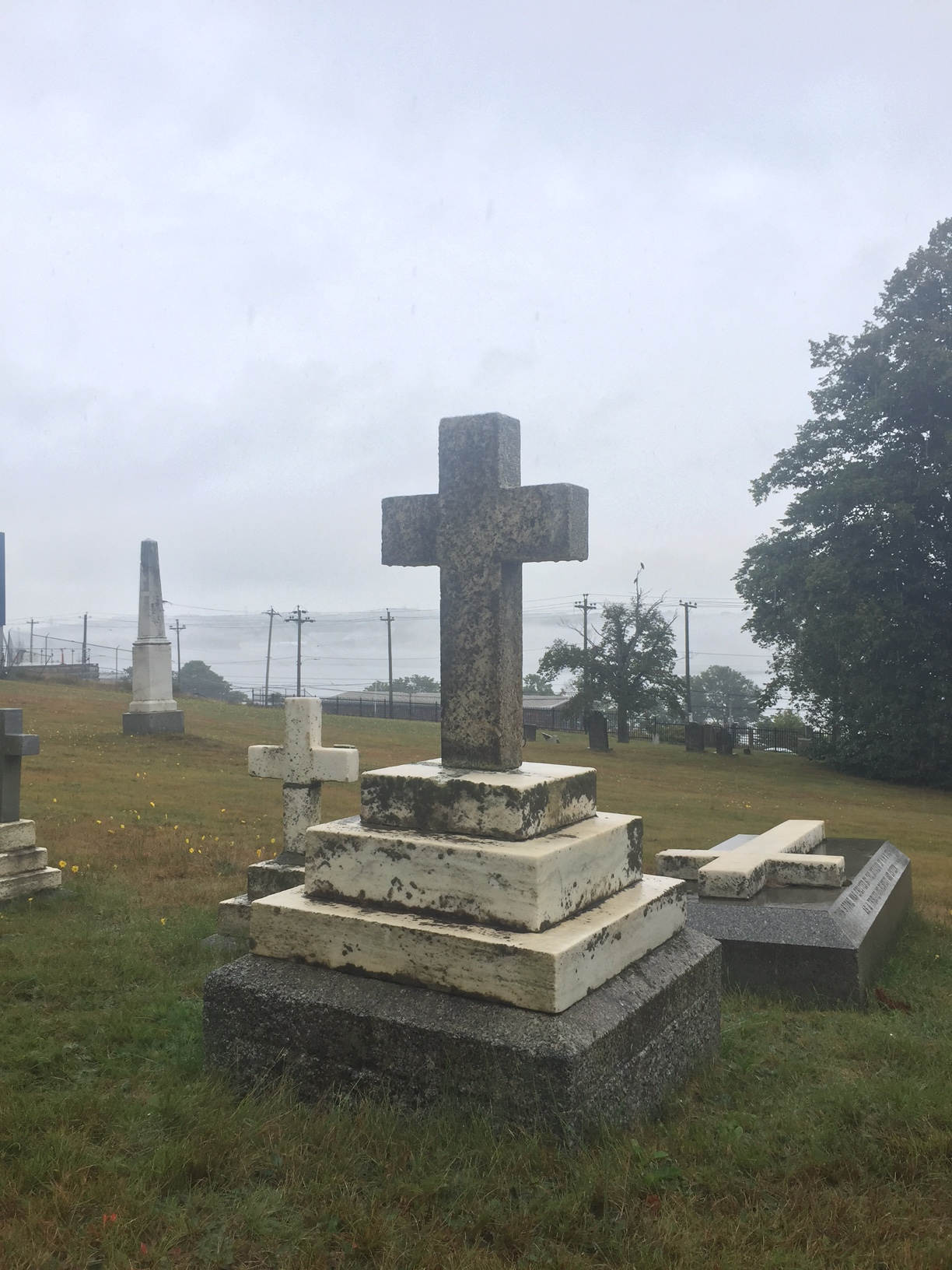 HMS Canada, Royal Naval Burying Ground, Halifax, Nova Scotia